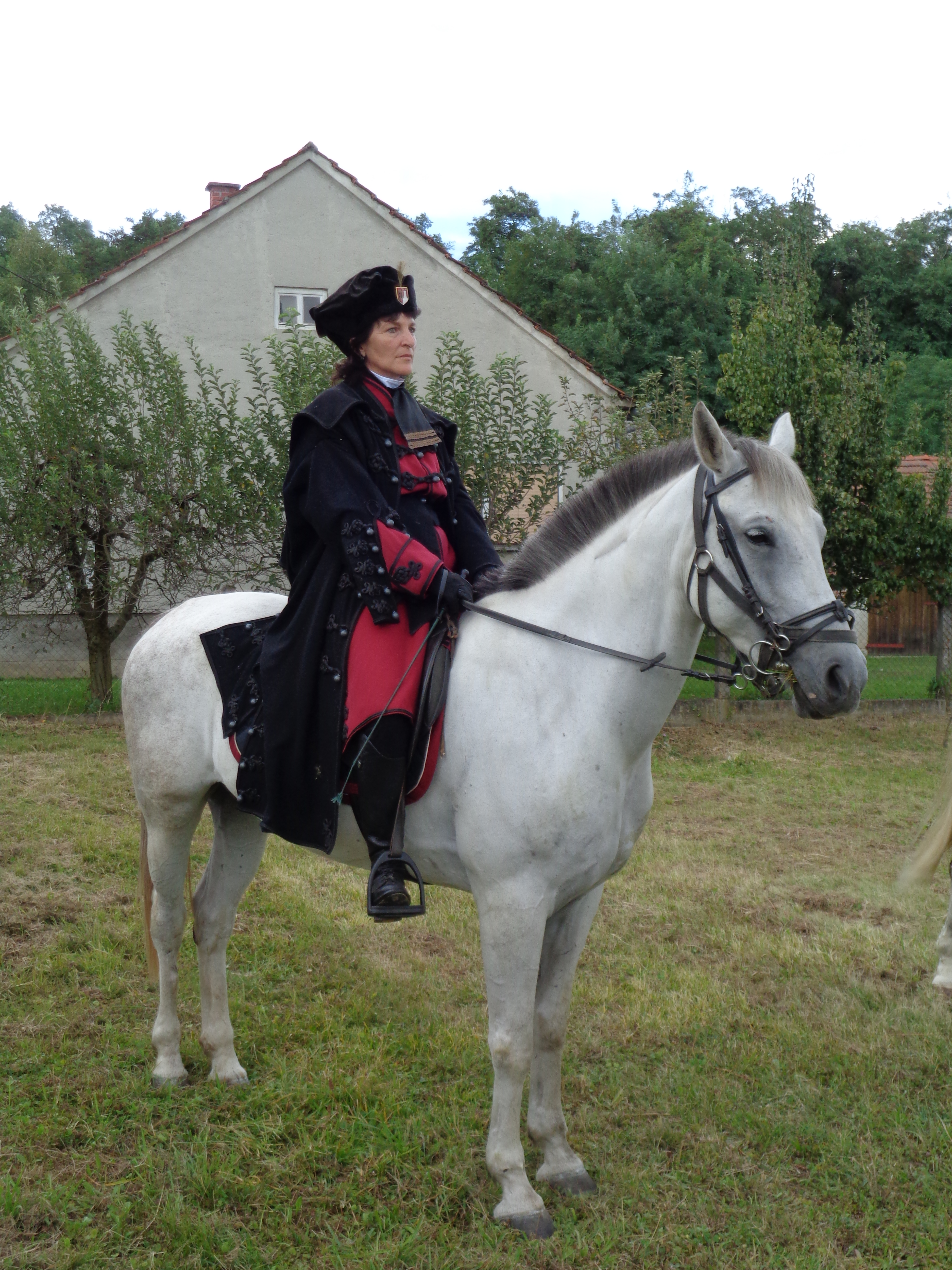 Zrinski guard - historical military unit from 16th century (Čakovec, Croatia) - cavalrywoman mounted on a gidran horse